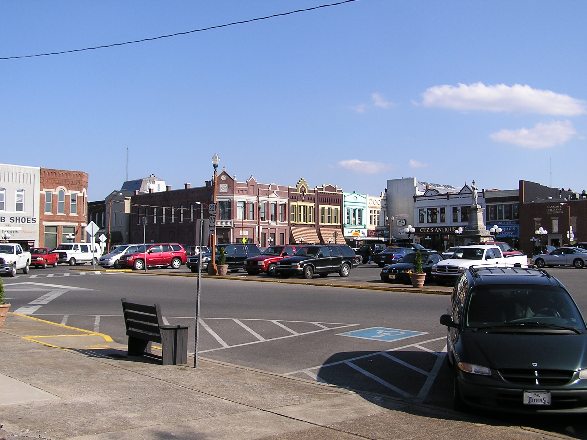 The town square in Lebanon, TN with the Civil War memorial statue in the center of the square.